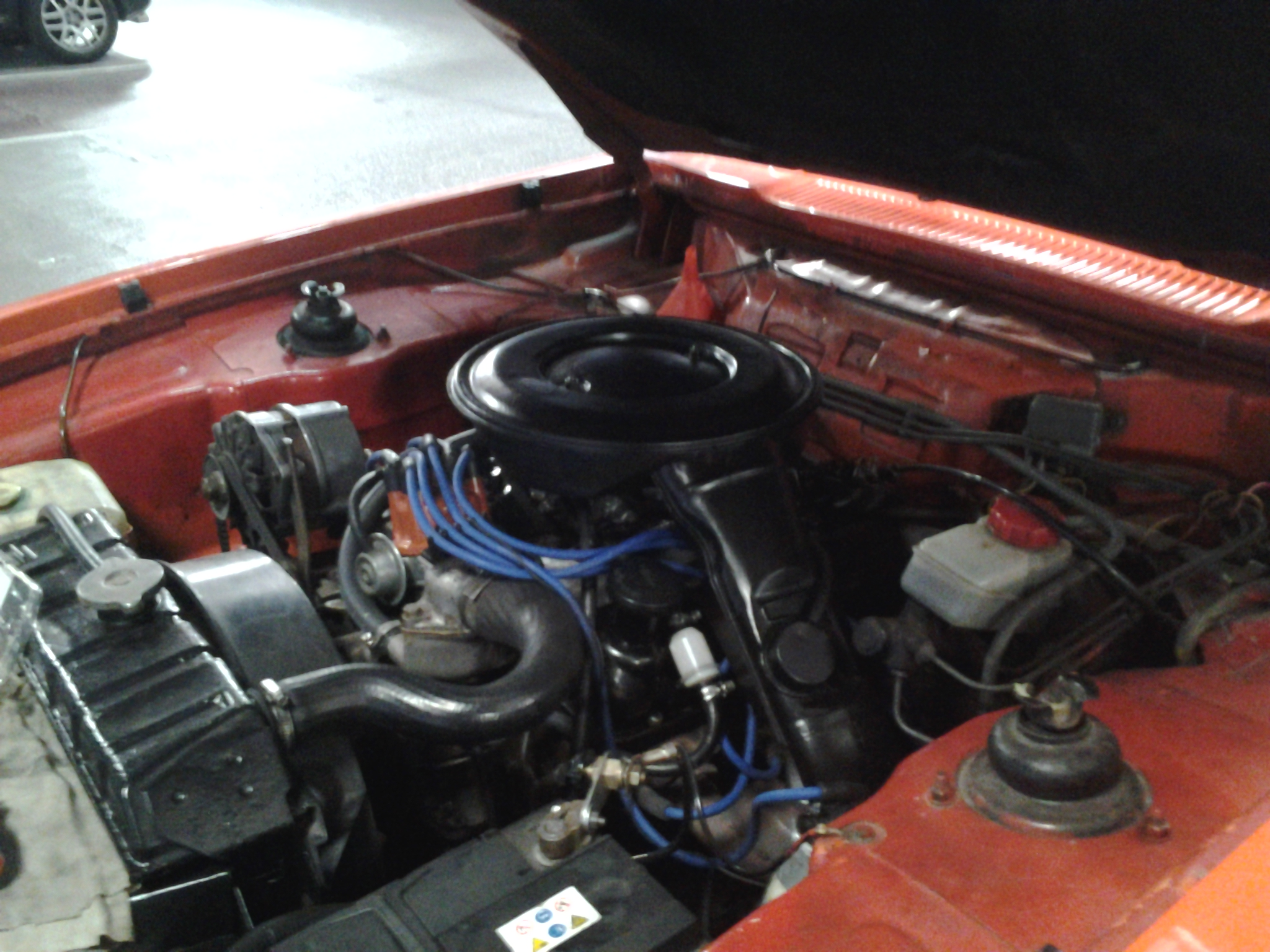 Ford Capri 3.0 engine